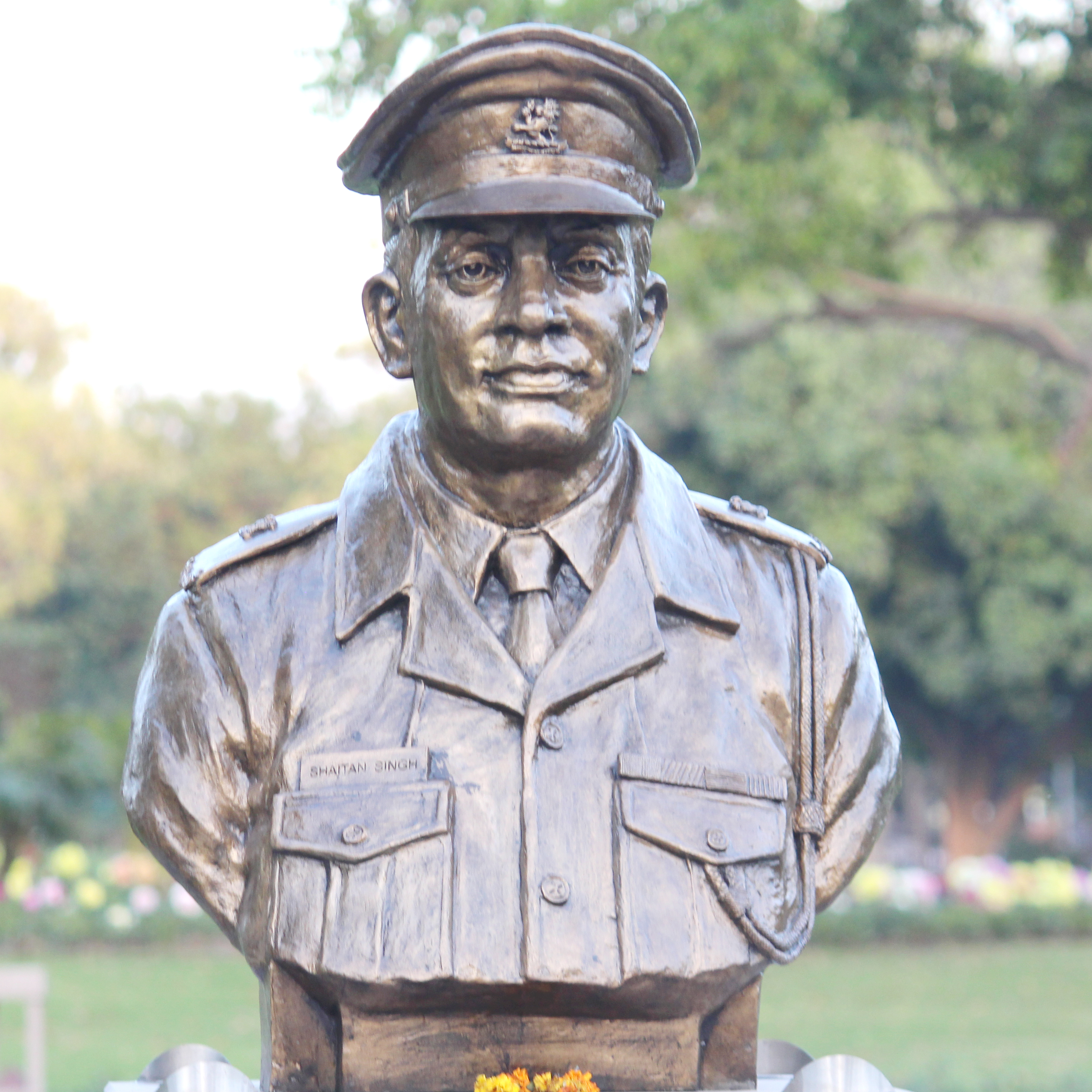 Major Shaitan Singh's statue at Param Yodha Sthal (section for Param Vir Chakra recipients), National War Memorial, New Delhi.